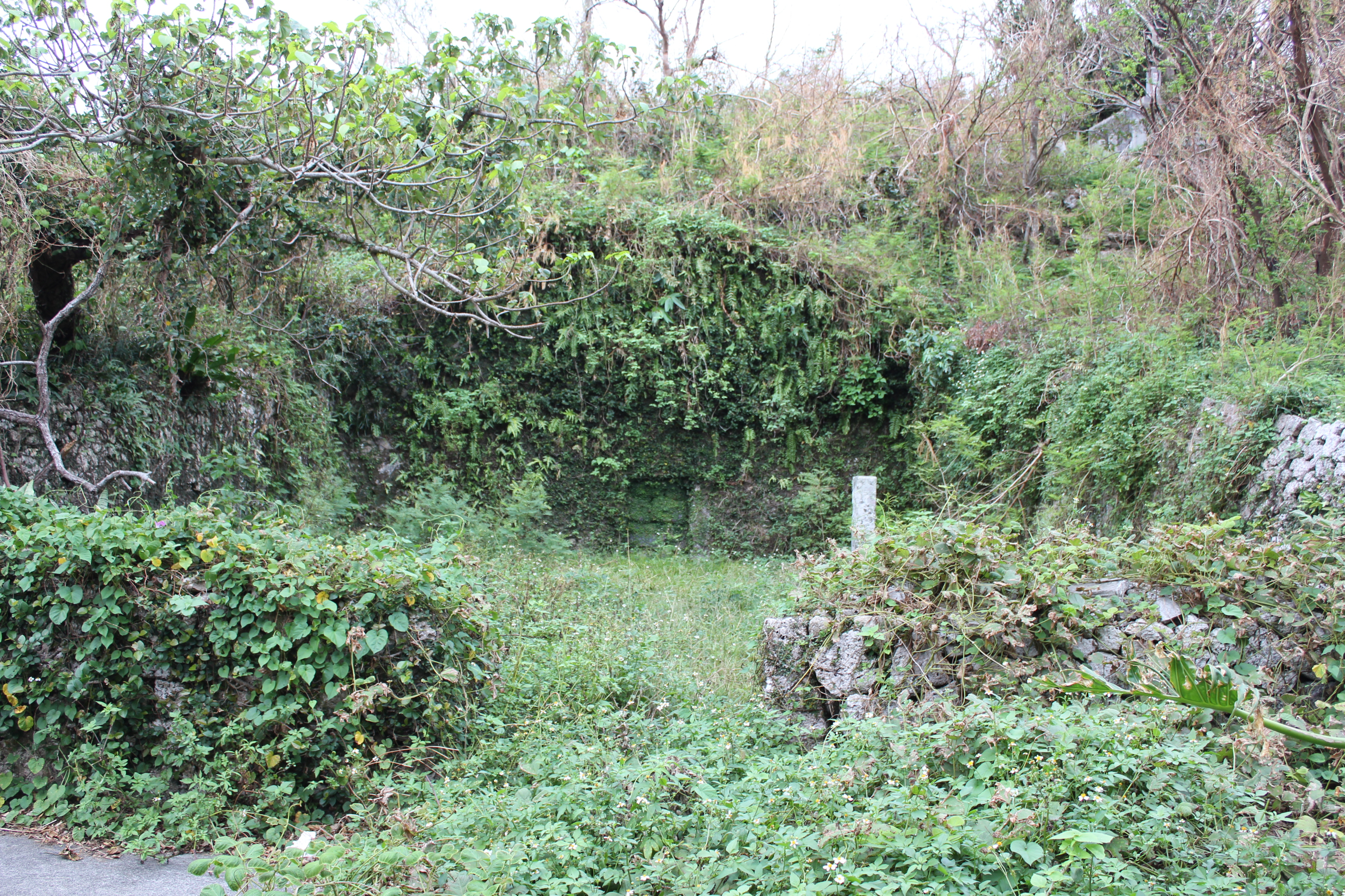 The tomb of Haneji Choshu